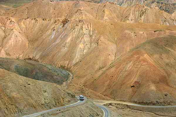 Leh-Kargil highway. A lone bus traverses the Himalayas between Ladakh and Kashmir.